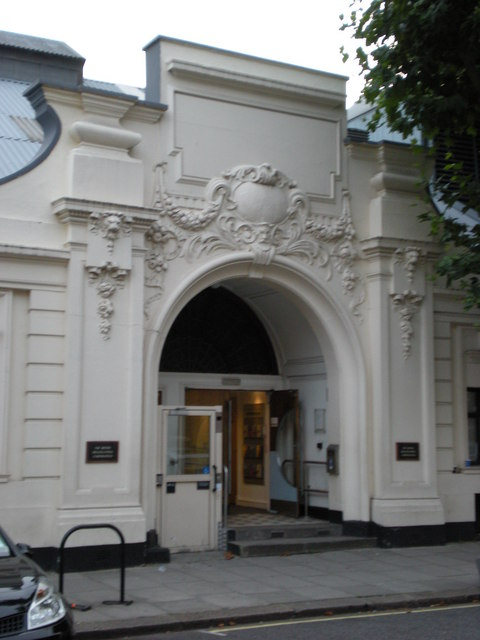 Detail of Maida Vale Studios The main entrance to Maida Vale Studios on Delaware Road in Maida Vale, London W9.